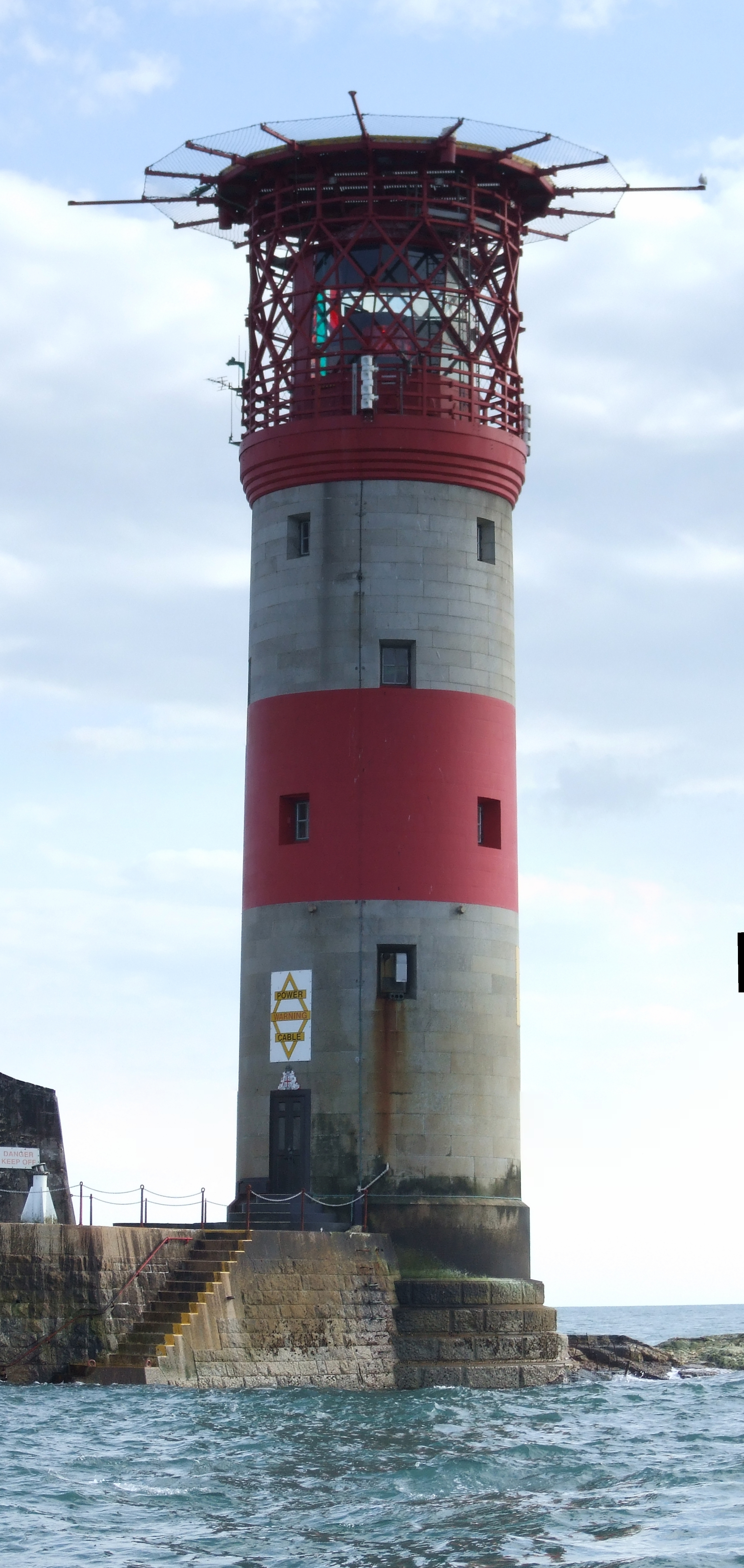 A high quality, stitched panorama shot of The Needles Lighthouse, Isle of Wight, seen in September 2007.